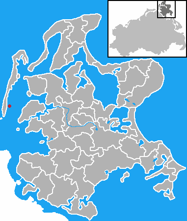 Site of the island Gänsewerder.